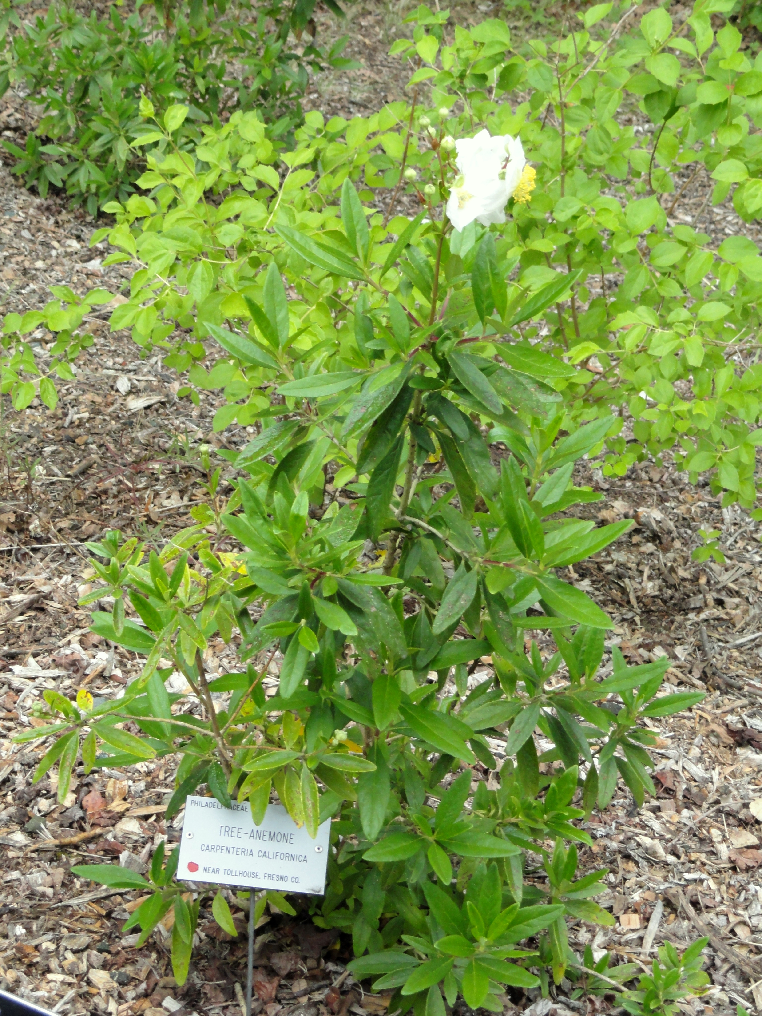 Carpenteria californica Specimen in the University of California Botanical Garden, Berkeley, California, USA.